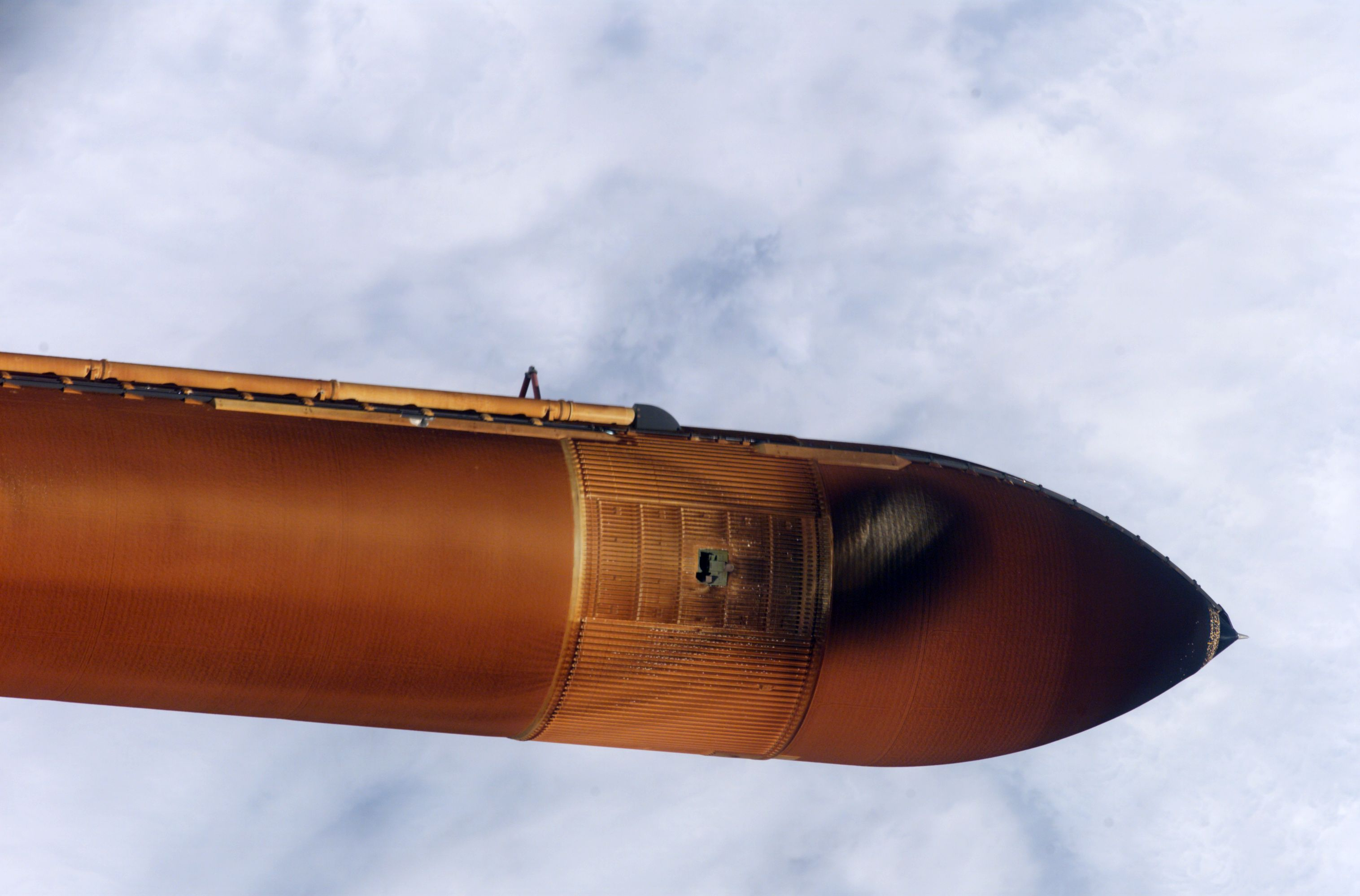 Handheld still image taken by Discovery's crew of the external fuel tank as it was jettisoned after launch on July 26 were transmitted to the ground early July 27. Initial analysis of the imagery shows a large piece of foam that separated from the tank during the Shuttle's ascent to orbit. The foam detached from an area of the tank called the Protuberance Air Load (PAL) Ramp. This debris also was identified during ascent from a live video camera mounted on the external tank. The television view indicated the debris did not impact Discovery. In this still image, the area of missing foam on the tank is indicated by a light white spot in near the upper edge of the tank just below the liquid oxygen feedline.